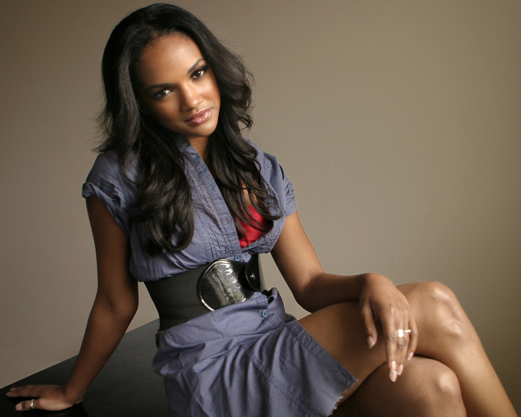 Mekia Cox